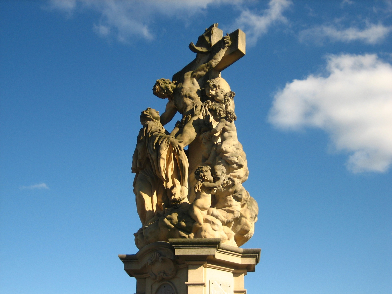 St Lutgard's Dream, sculptural group by Matthias Bernard Braun (1710) on Charles Bridge, Prague.